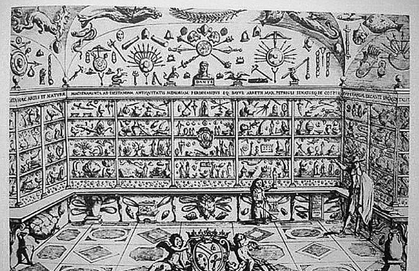 A room in the Palazzo Publico Bologna showing Ferdinando Cospi presenting his collection to the museum